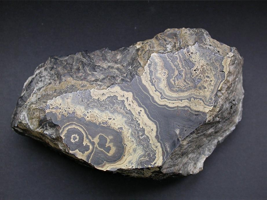 Schalenblende Locality: Hammerberg Mine, Stolberg, Aachen, North Rhine-Westphalia, Germany Specimen size 9x5cm. Specimen and photo Leon Hupperichs.